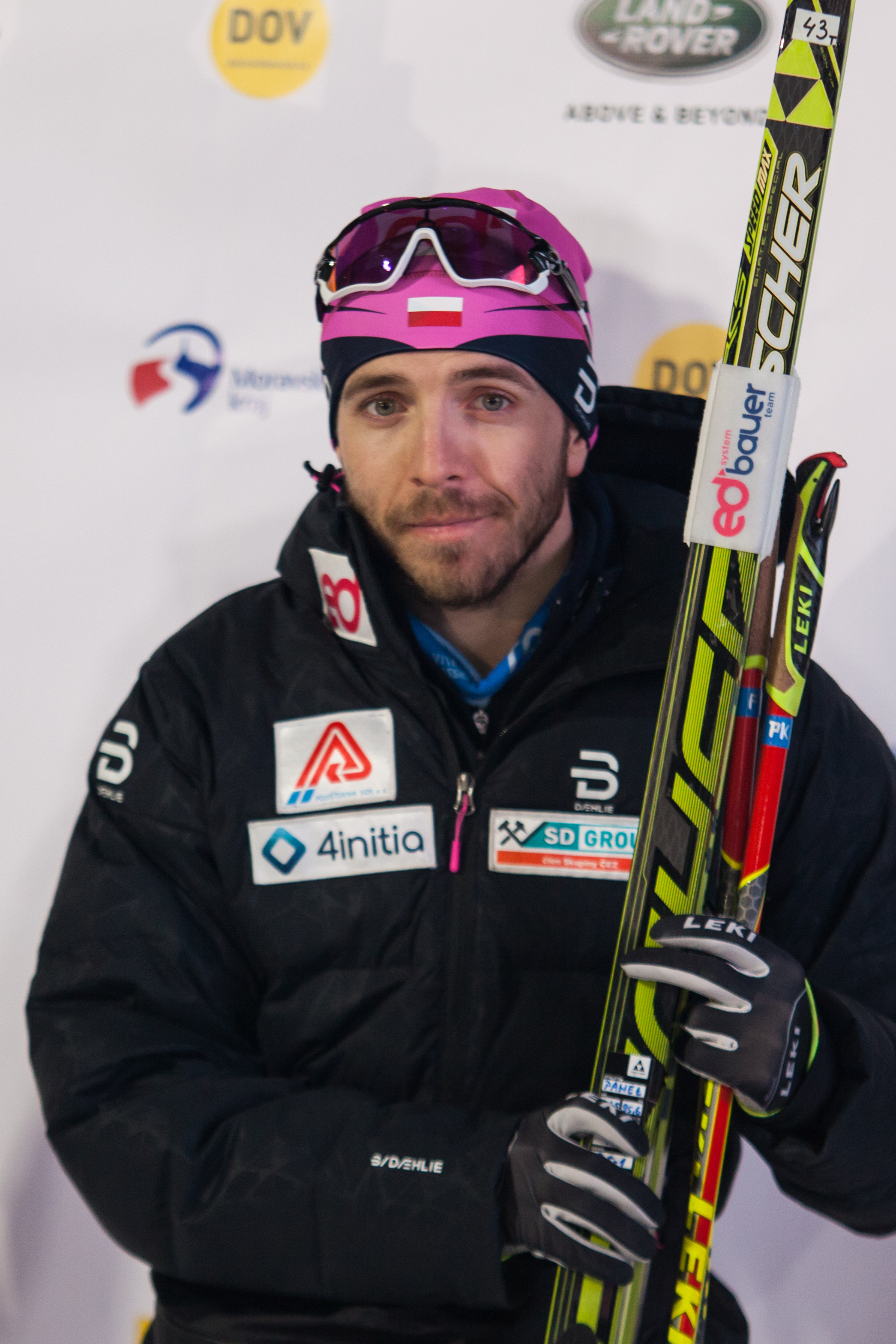 Pawel Klisz on cross-country race ČEZ City Cross Sprint 2019